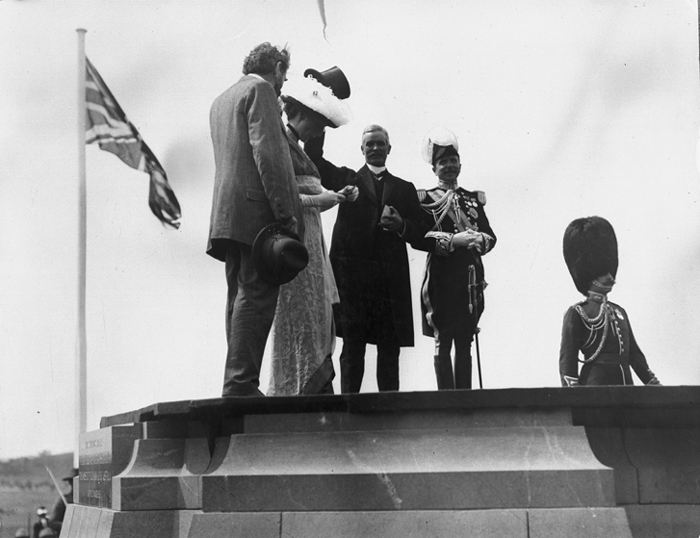 Lady Denman naming the Capital city of Australia, "Canberra. "Historical - Events - Lady Denman, wife of the Governor-General Sir Thomas Denman, scans the slip of paper on which is written the name of Australia's capital, Canberra, at a ceremony on 12 March 1913. Until the ceremony the name was kept a close secret"* File:Naming of city of canberra capital hill 1913.jpg [1]